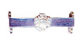 Bar to the Nkwe ya Selefera - Silver Leopard, post-nominal letters NS, awarded to persons who have distinguished themselves by performing acts of conspicuous bravery during military operations